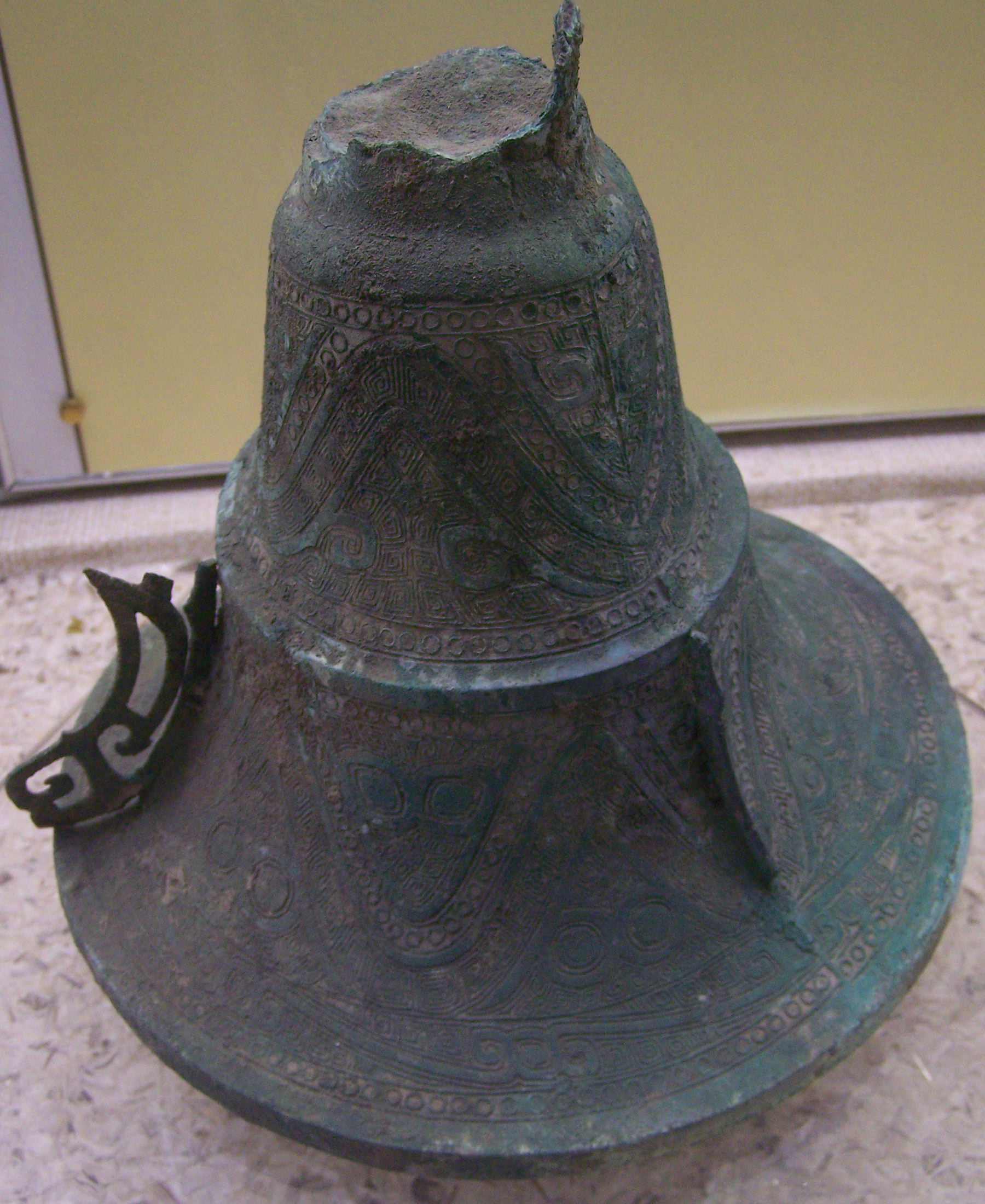 a part of SanXingDui TongShenShu